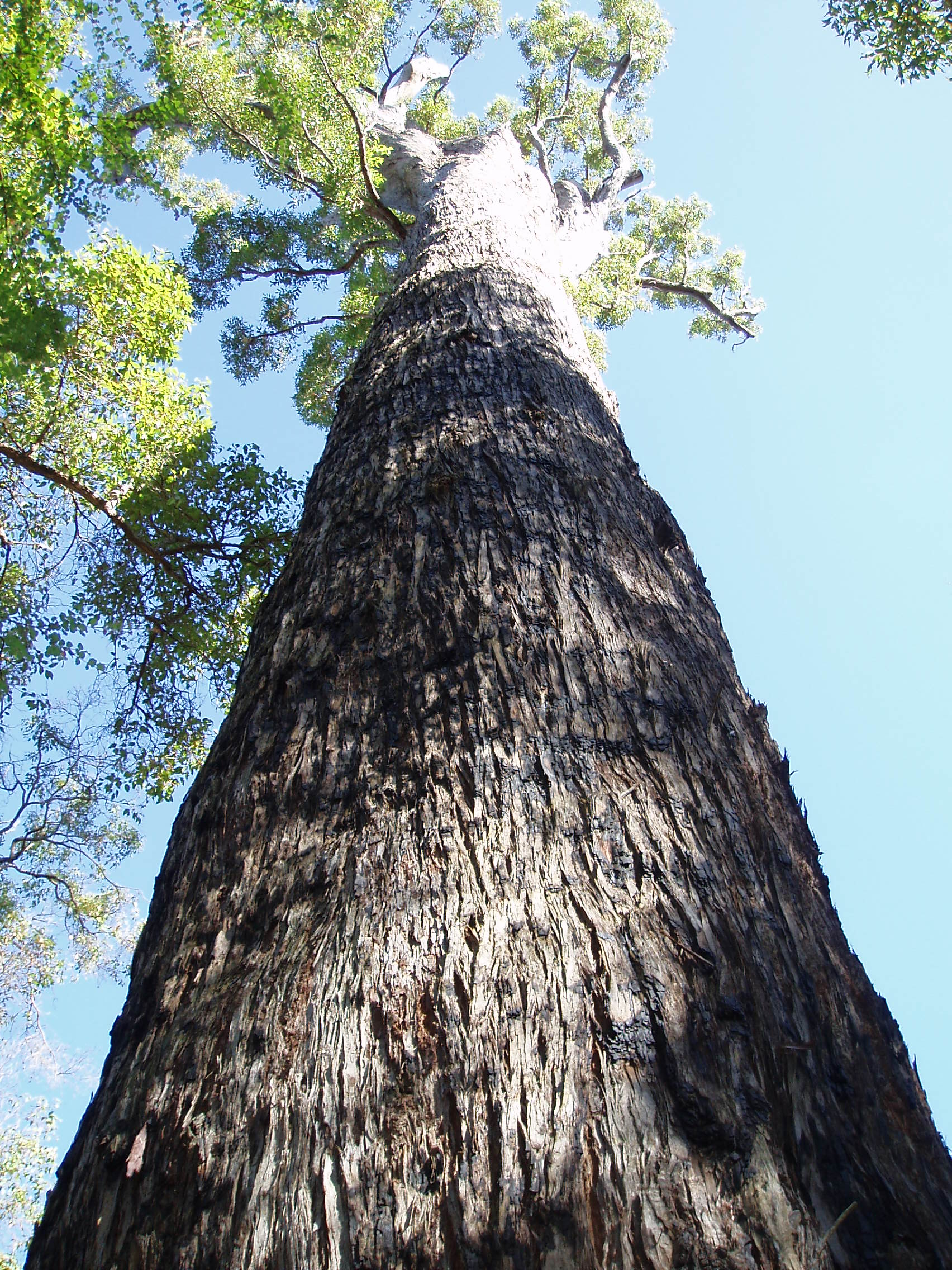 Our next Remarkable Tree visit was to King Jarrah. He is 500 year old and is 45 metres high. They do not reach the height of the Karri trees but are still spectacular and have very interesting bark.